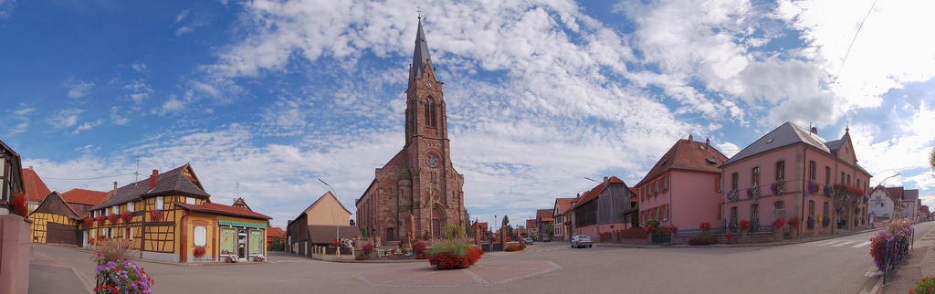 Panorama of the plaza in Westhouse, a commune in the Bas-Rhin department in Alsace in north-eastern France.